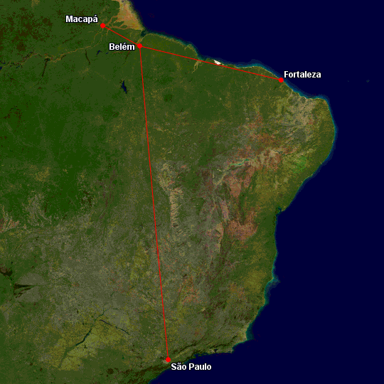 Puma Air Routes Map